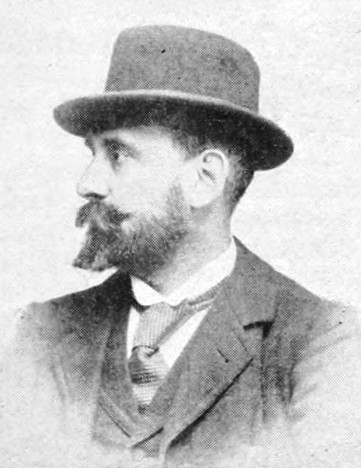 Charles Boom.